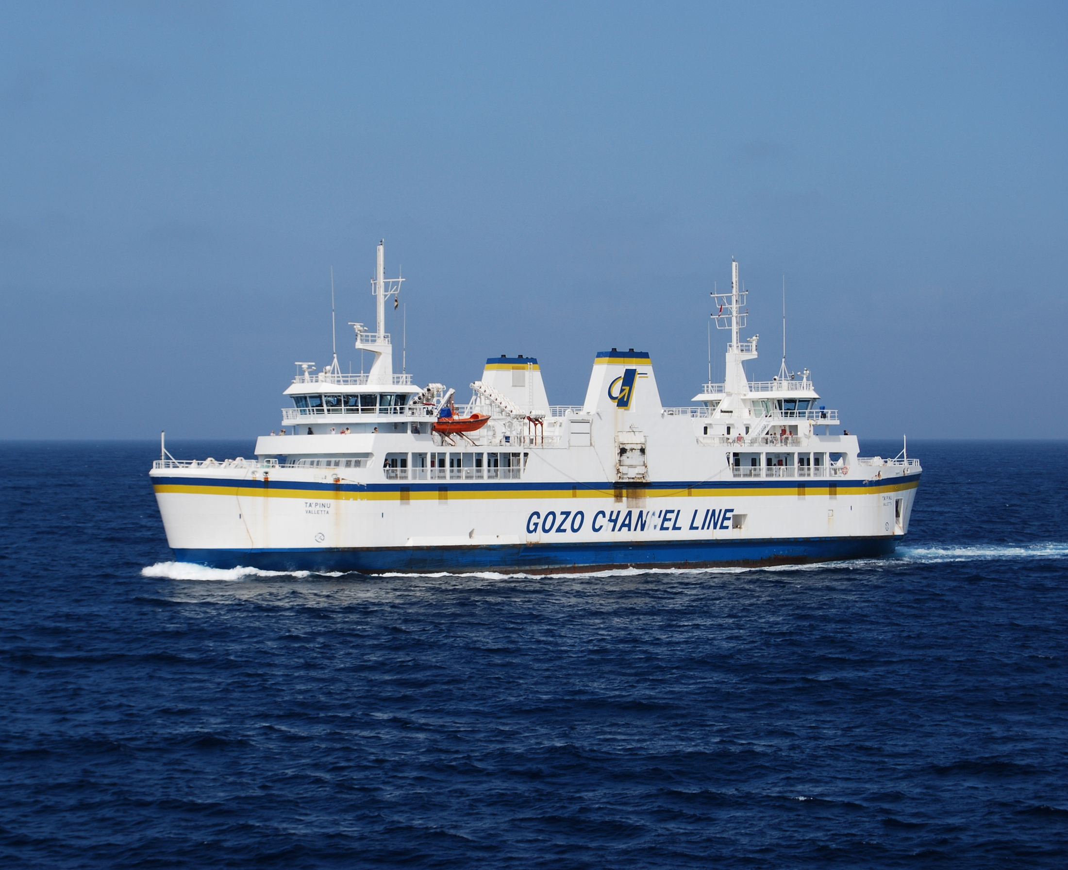 Ferry Ta' Pinu (2000) on the way from Gozo to Malta.